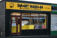 Picture of Braniel Smart Wash-in unit